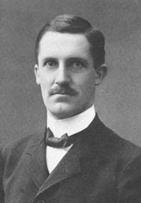 Robert Elias Fries (1876 - 1966). This picture has previously been published in Mycological Notes, by C. G. Lloyd, No 32, Februari 1909, s.419. There is no information who took the picture, it just says "Our photographs of Theodor M. Fries, Oscar Robert Fries, and Robert E. Fries need no explanation.".